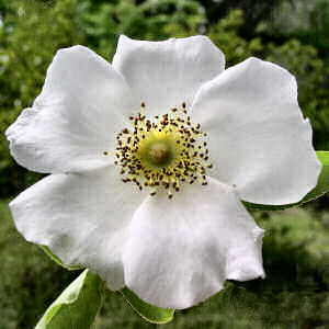 The Cherokee Rose Rosa laevigata, state flower of Georgia